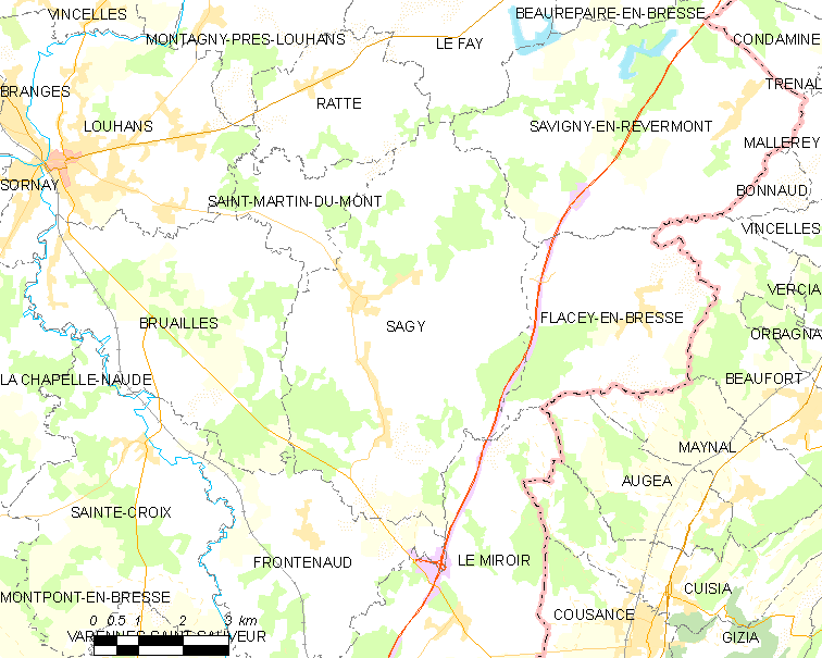 Map of French municipality